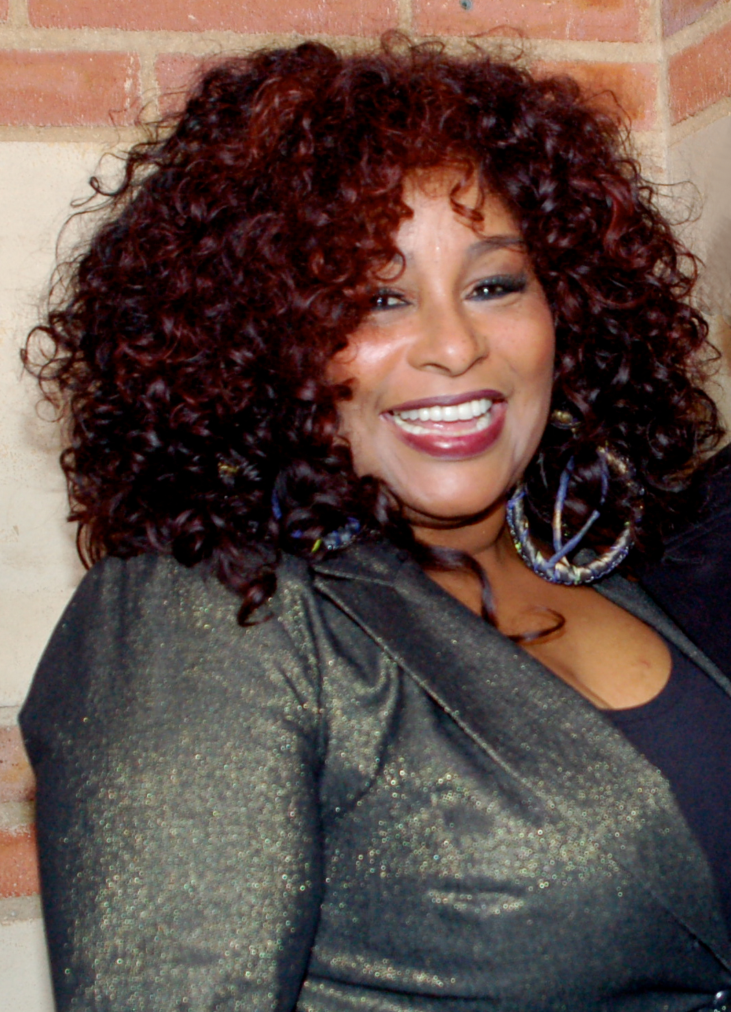 Chaka Khan at a performance of The Hot Chocolate Nutcracker in December 2010.